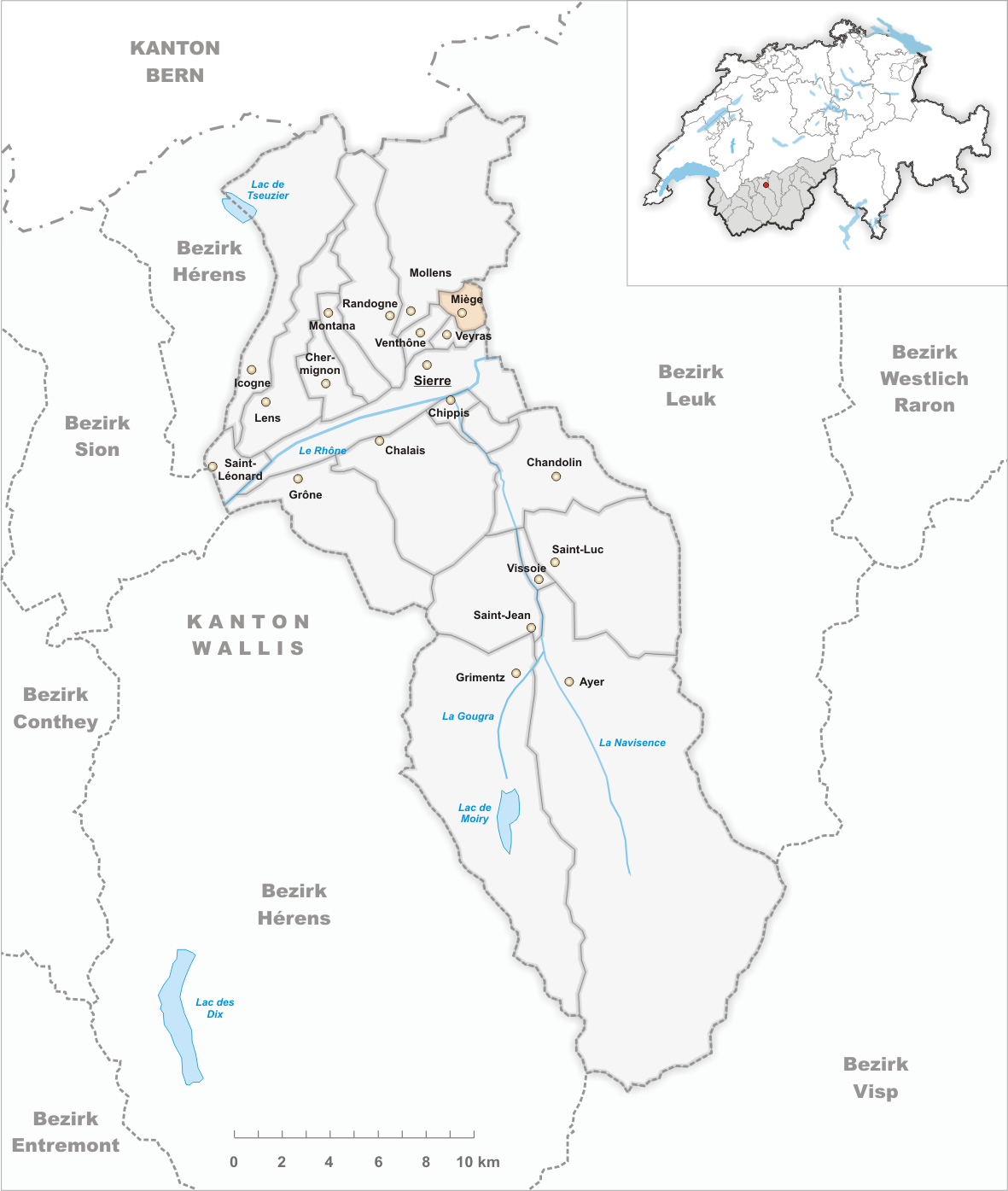 Municipality Miège